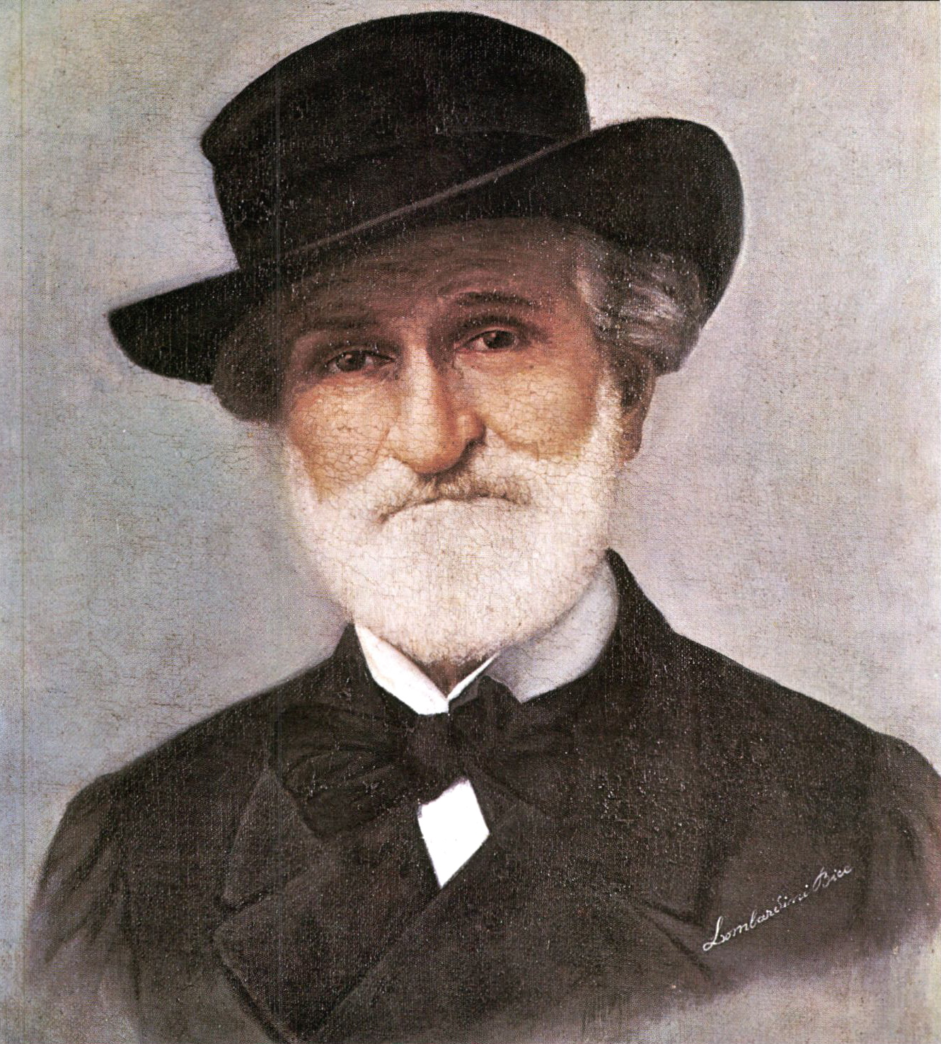 Portrait of Giuseppe Verdi, painting by Bice Lombardini. Painting made after one or more photographs by Pietro Tempestini: certainly this one: [4] ([5]), [6], possibly also File:Verdi-1899.jpg.